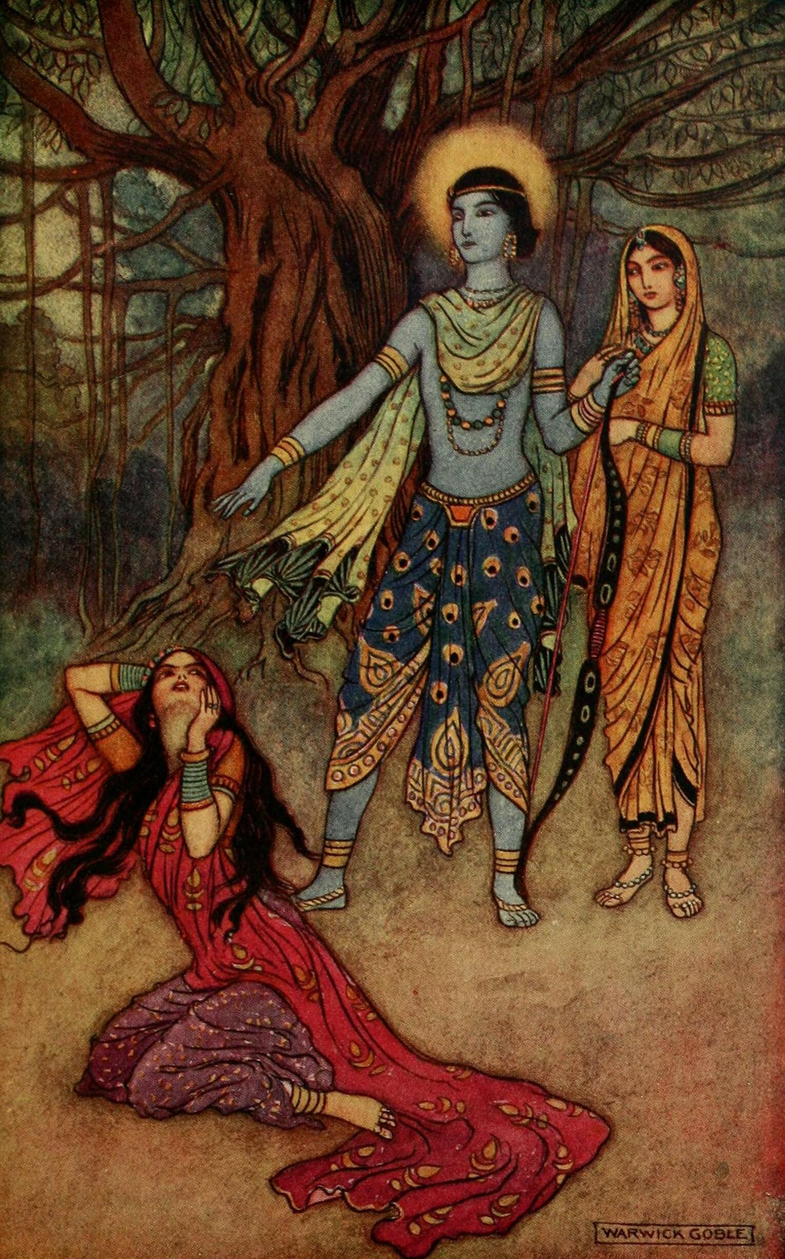 Author: Mackenzie, Donald Alexander, 1873-1936; Goble, Warwick Subject: Mythology, Hindu; Legends Publisher: London : Gresham Language: English Digitizing sponsor: Boston Library Consortium Member Libraries Book contributor: University of Connecticut Libraries Collection: uconn_libraries; blc; americana Full catalog record: MARCXML [Open Library icon]This book has an editable web page on Open Library.